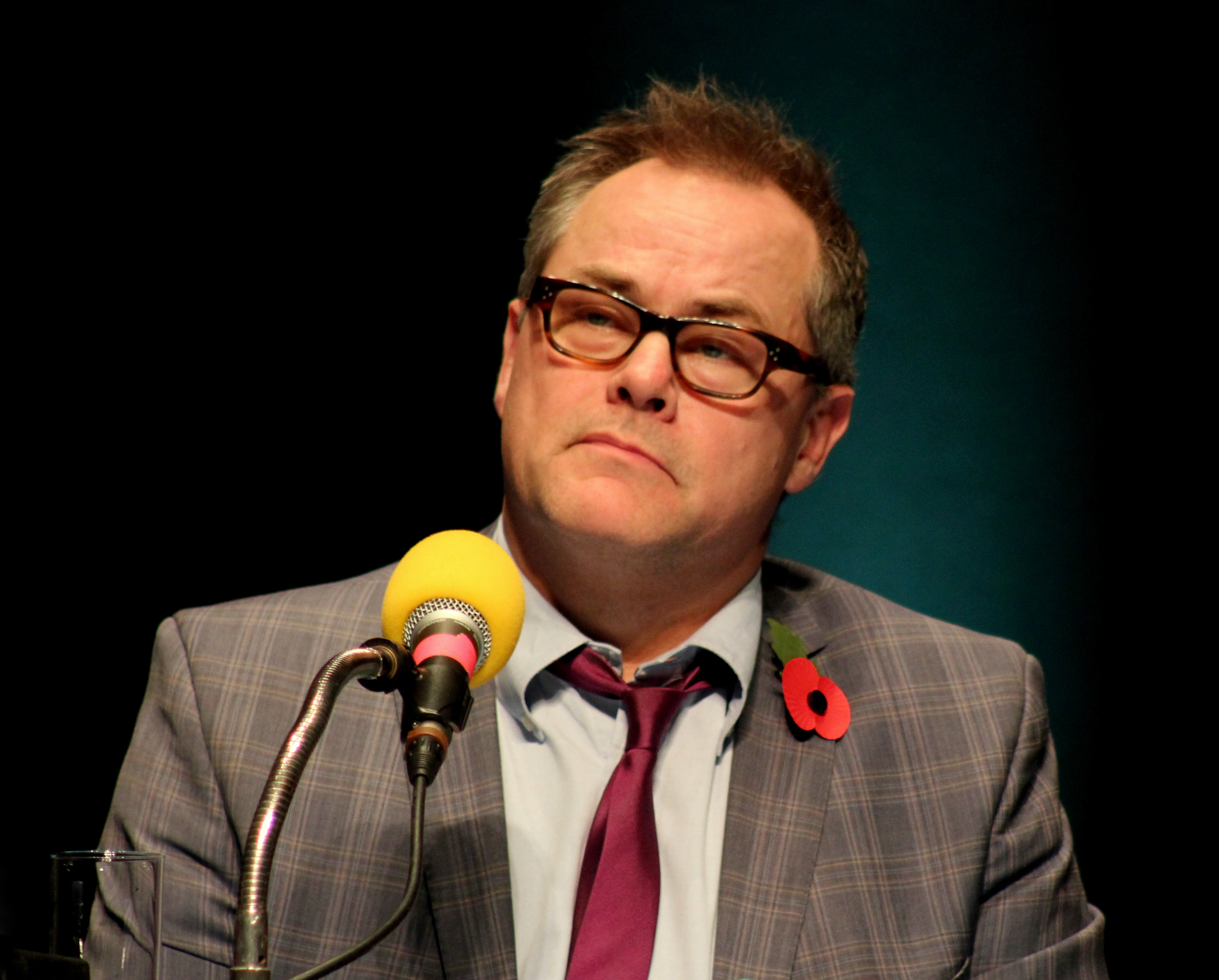 Jack Dee chairing and episode of I'm Sorry I Haven't a Clue at the Richmond Theatre in November 2014.